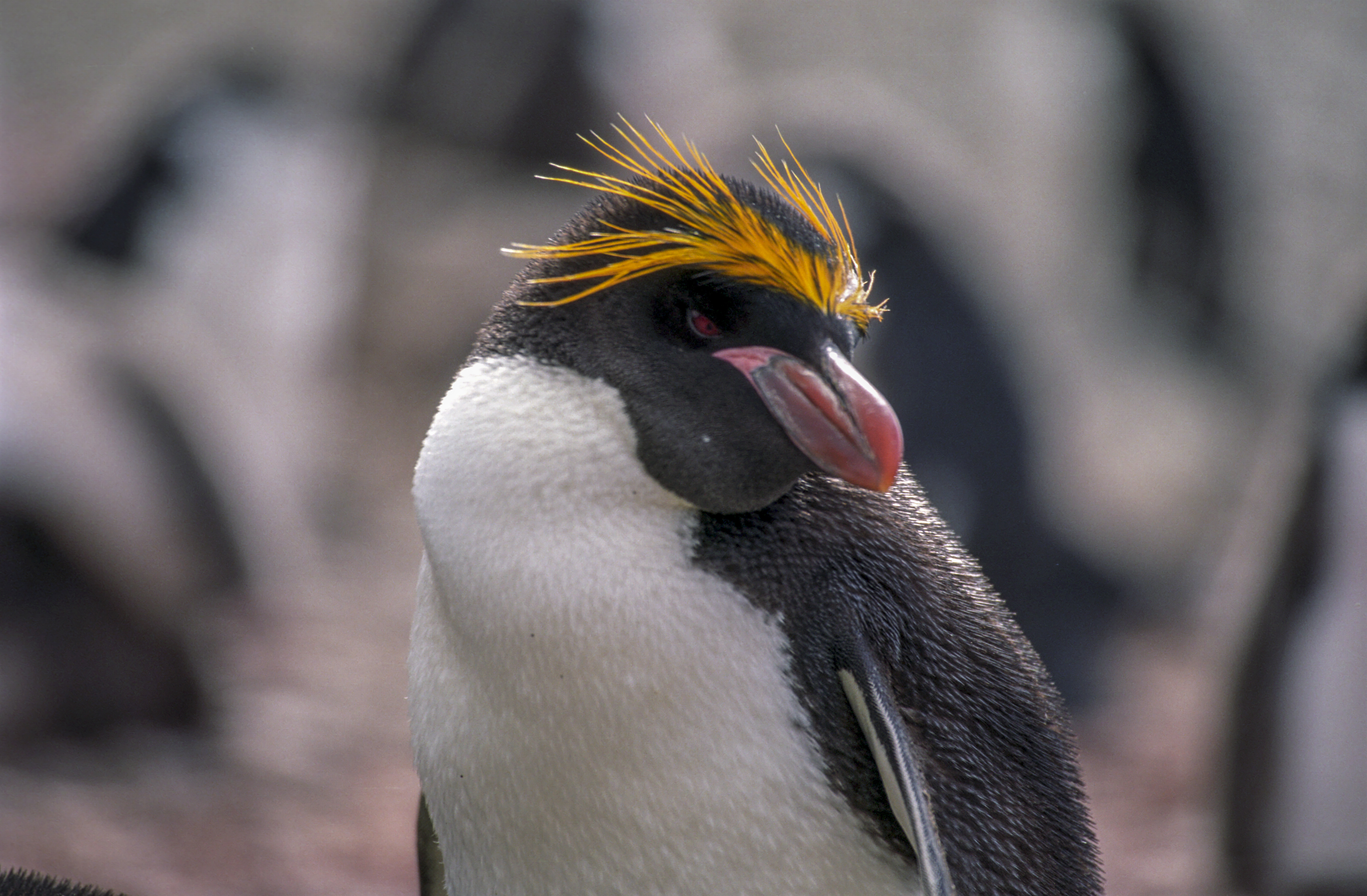 Macaroni Penguin, Hannah Point, Livingston Island: 62°39'S, 60°36'W, Antarctic Peninsula